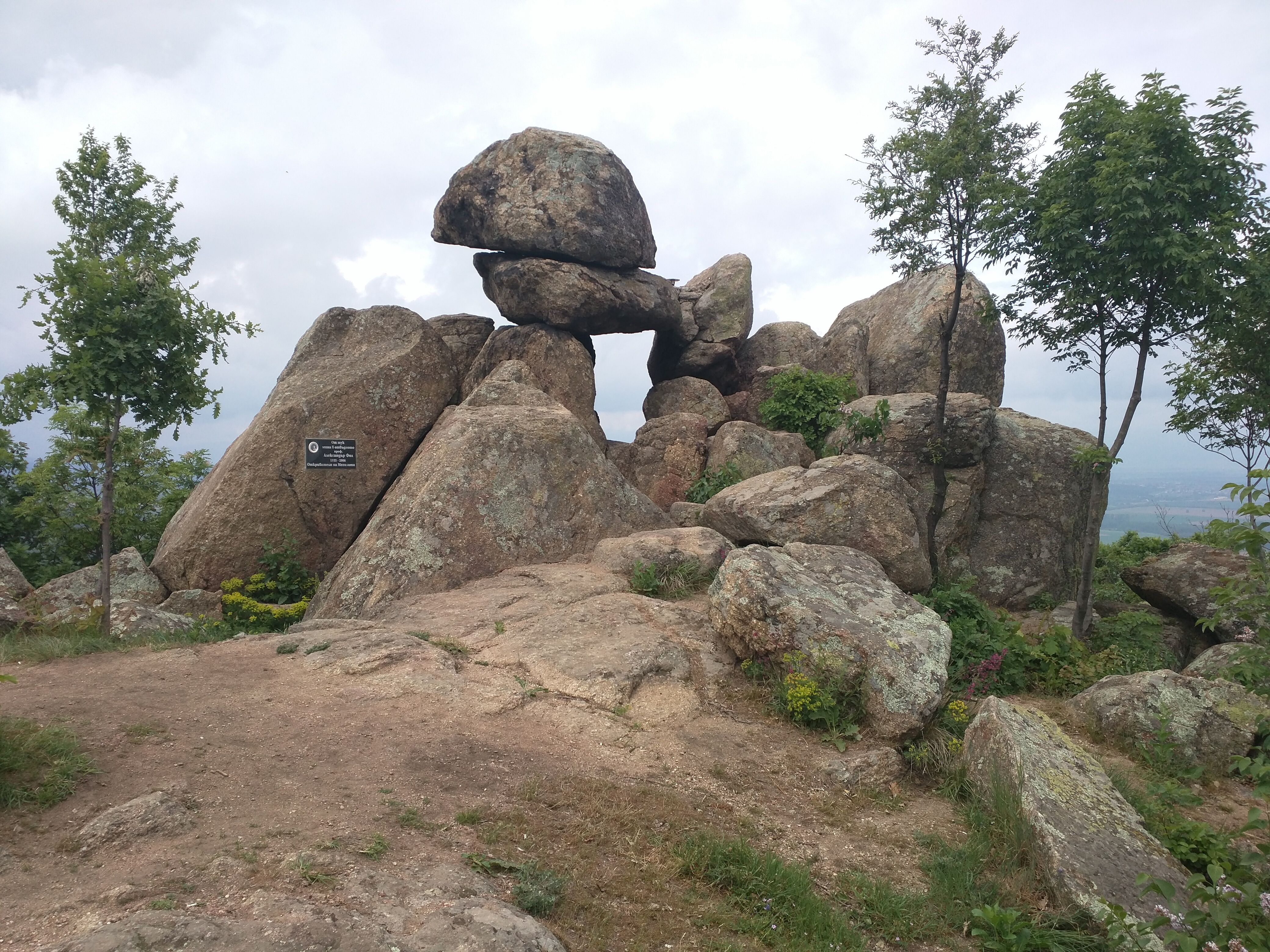 Stara Zagora Province, Kazanlak Municipality.Village of Buzovgrad, Sarnena Sredna Gora Mountain, Megalith, rock group, shrine. com/j7onshd